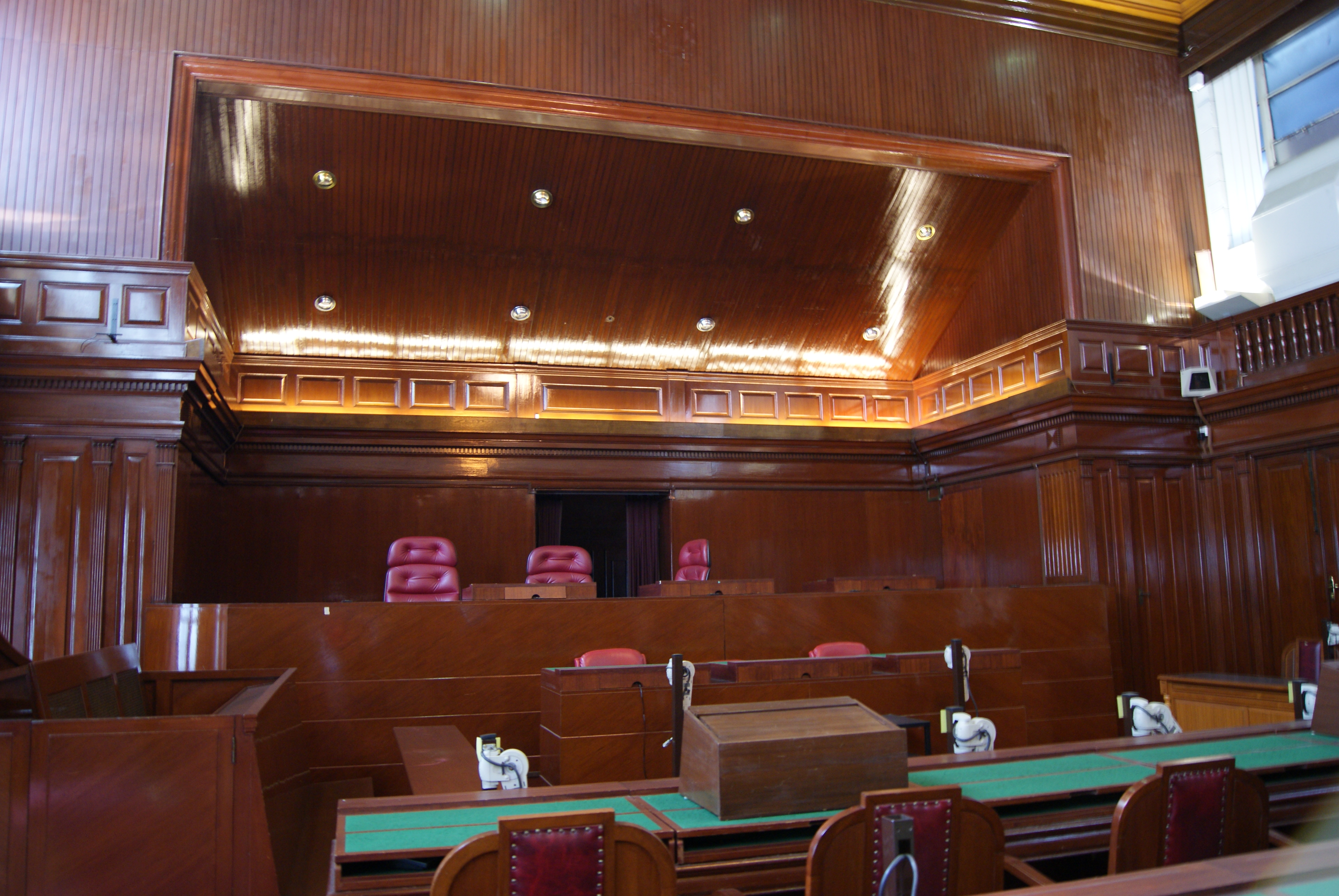 An interior view of the Court of Appeal courtroom of the Old Supreme Court Building, Singapore.